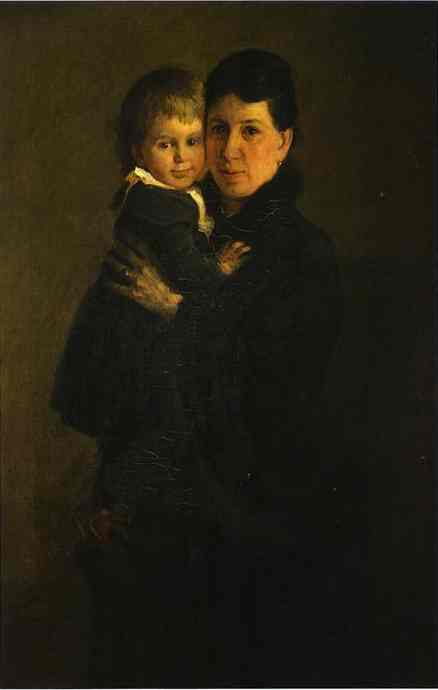 Leo Tolstoy's wife Sophia Tolstaya and daughter Alexandra Tolstaya.